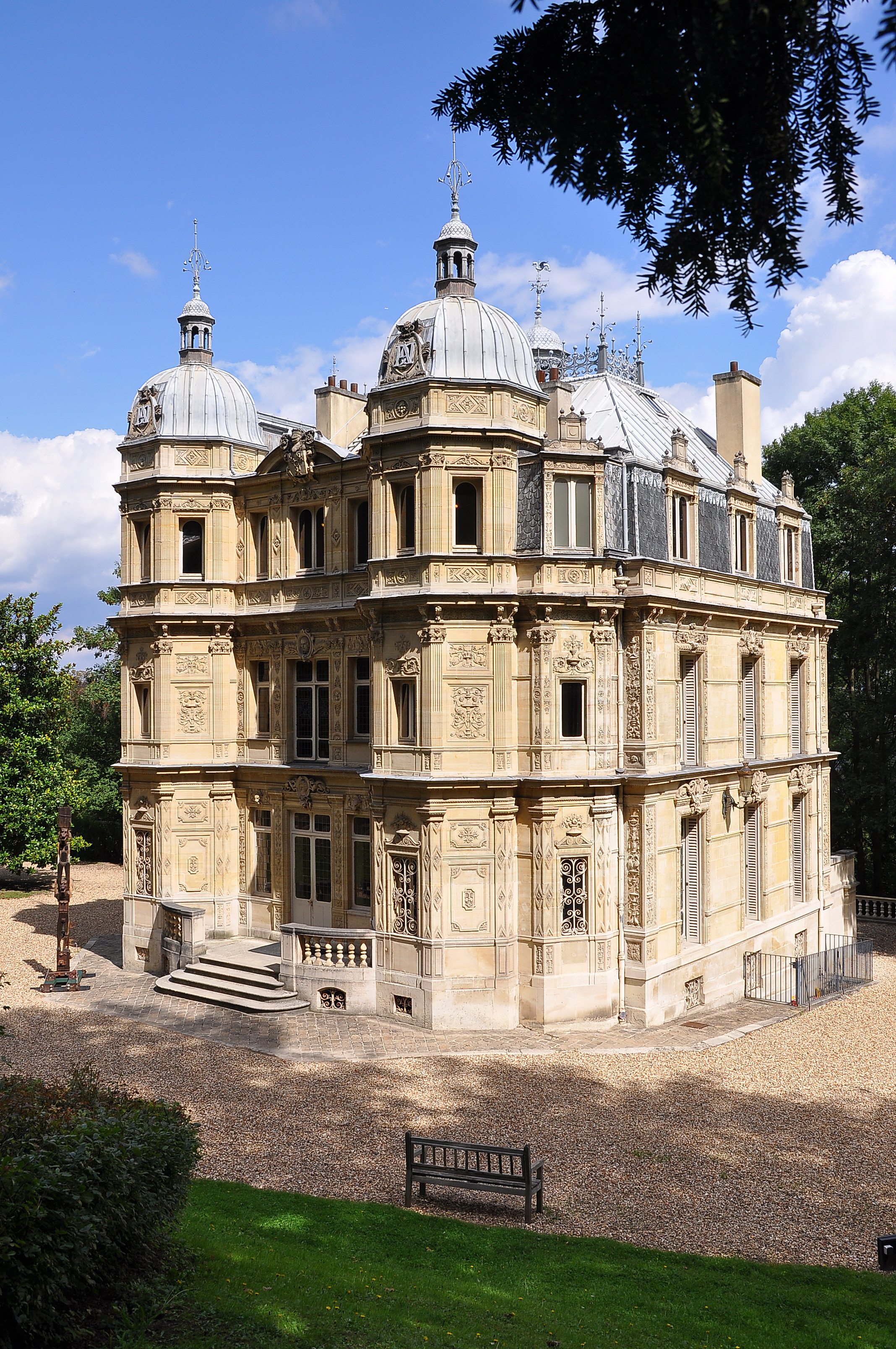 Château de Monte-Cristo of the famous writer Alexandre Dumas in Le Port-Marly, Yvelines, France.